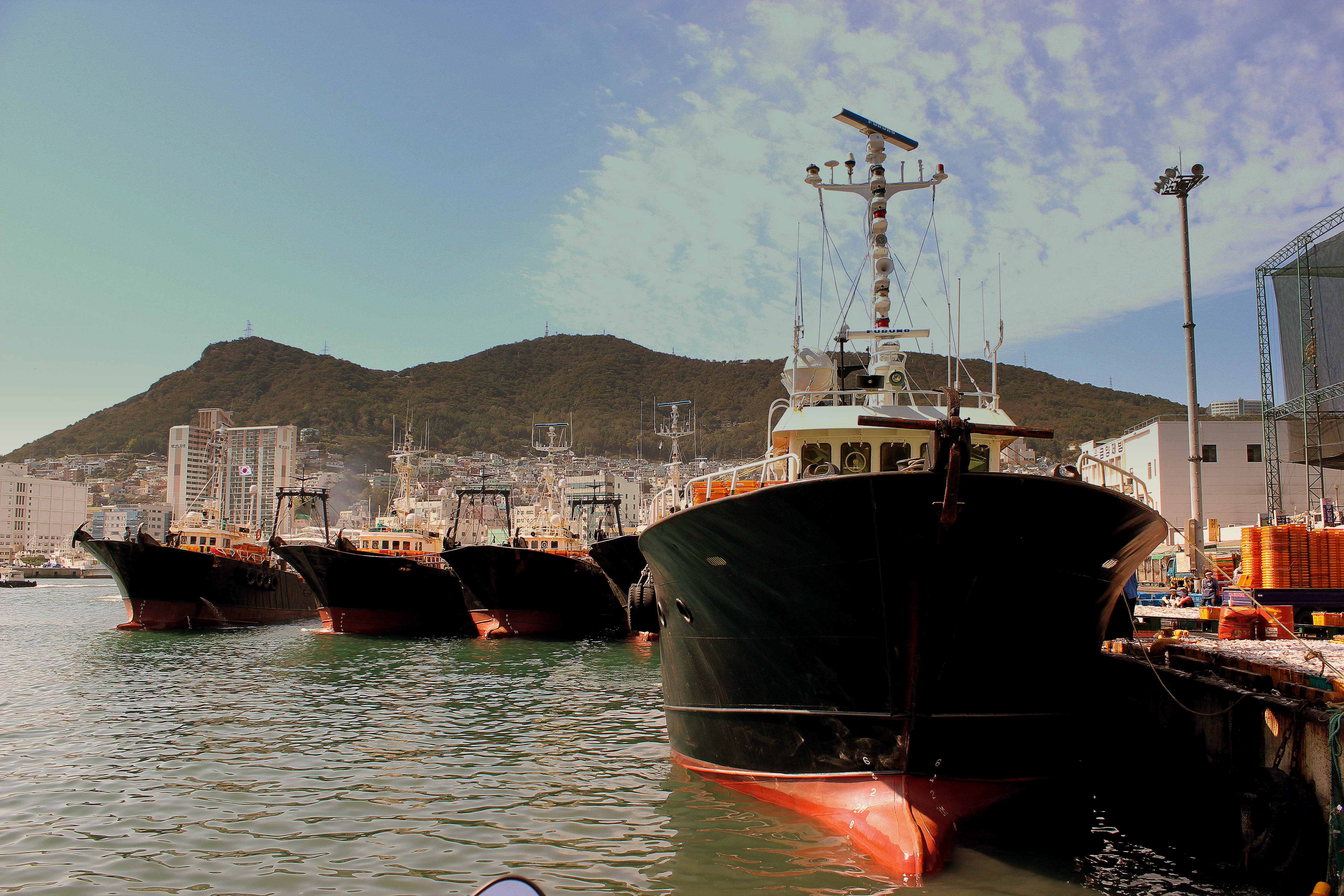 Fishing boats in Busan Port. Busan, South Korea. Photograph from Flickr; author calflier001; license of cc-by-sa-2.0.